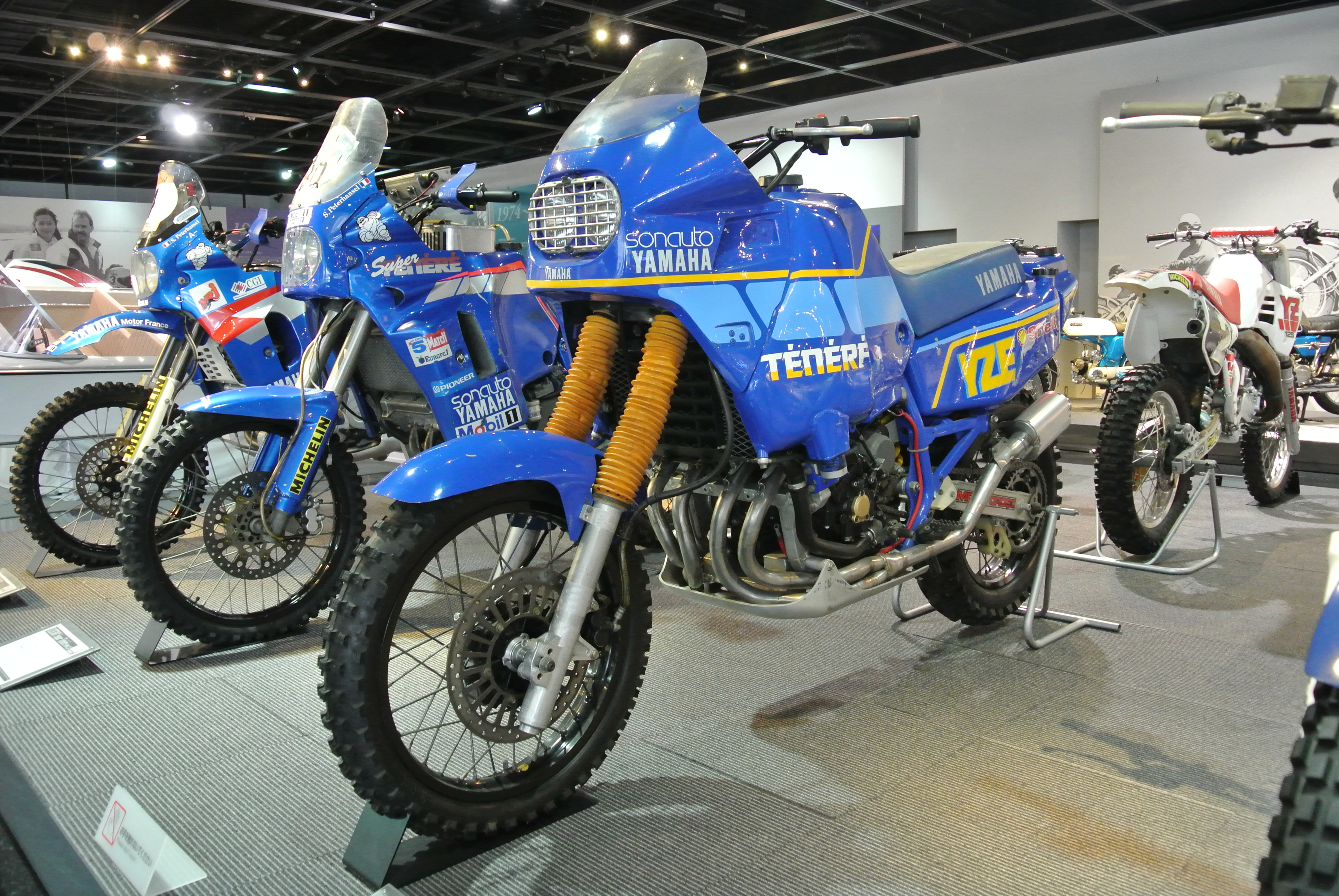 Yamaha Paris–Dakar Rally Motorcycles in the Yamaha Communication Plaza. Description: left to right. 1995 XTZ850R. Rider Stephane Peterhansel (1st) 1991 YZE750T Super Ténéré (OWC5). Rider Stephane Peterhansel (1st place), Gill LALAY (2nd), Thierry Magnaldi (3rd)1986 FZ750 Ténéré (OU26). Rider Jean-Claude Olivier